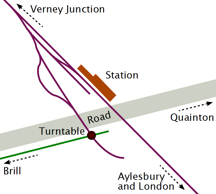 Layout of the first (1868—97) railway station at Quainton Road, Buckinghamshire, England